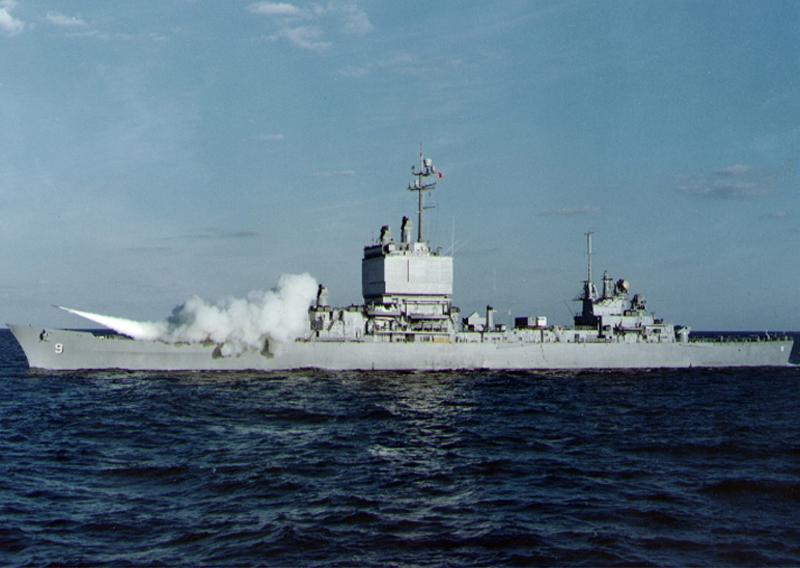 The U.S. Navy guided missile cruiser USS Long Beach (CGN-9) firing a SAM-N-7 Terrier missile, in October 1961. Note that the AN/SPS-33 antennas have not yet been installed on the superstructure, also the 12.7 cm/L 38 mounts aft of the superstructure are still missing.